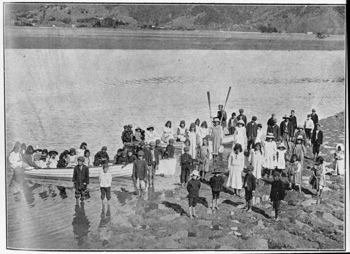 Whangape Native School Ferry. Northland, New Zealand.